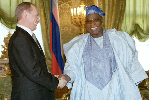 THE GRAND KREMLIN PALACE, MOSCOW. President Putin with Nigerian President Olusegun Obasanjo.